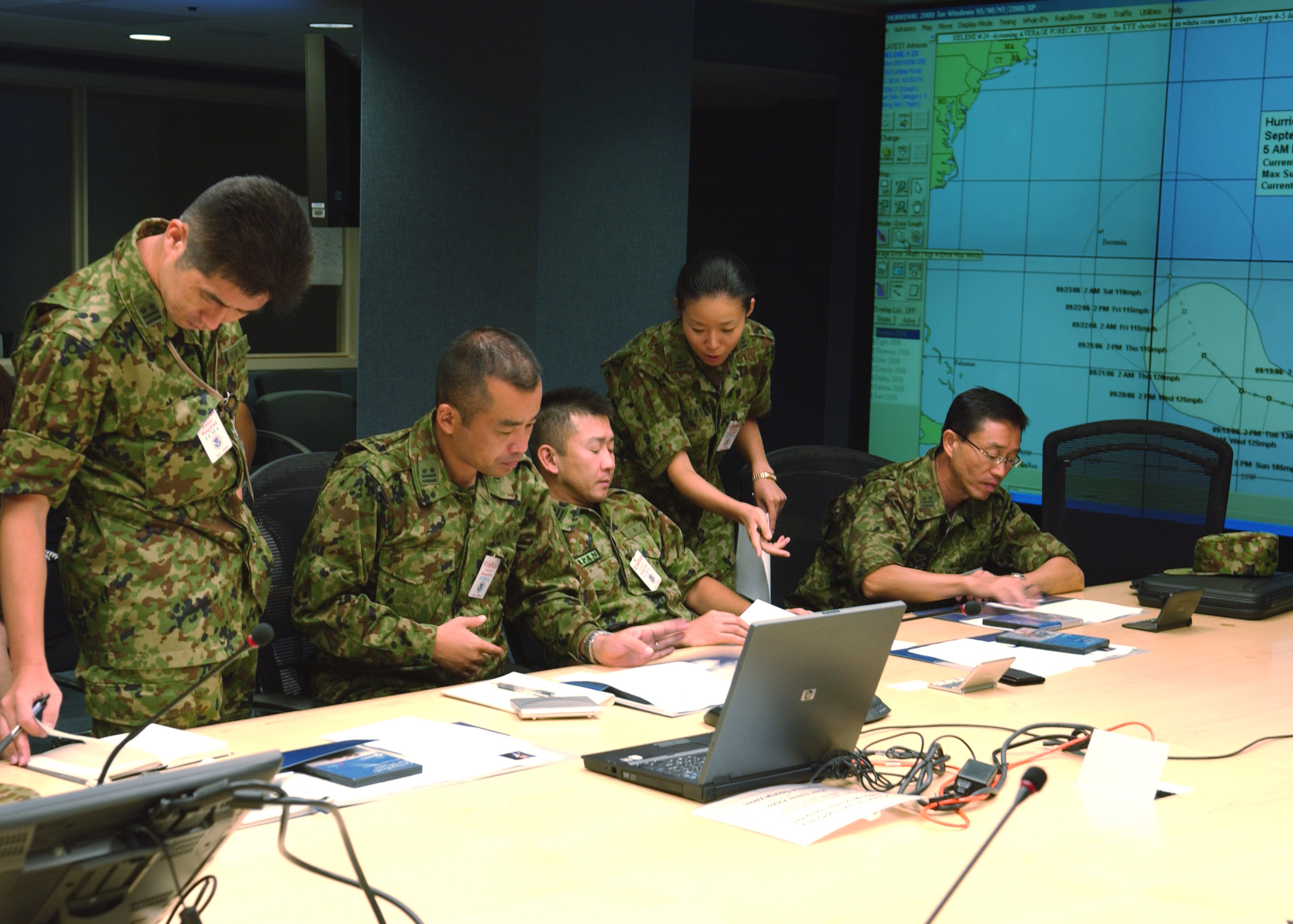 Washington, DC. -- September 18, 2006. Japan's Ground Self-Defense Force Delegation discuss some of the concepts regarding crisis communications and the importance of managing expectations thru media vehicles. FEMA Photo by Bill Koplitz.